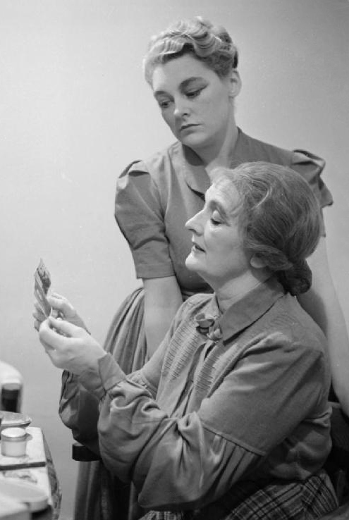 Dame Sybil Thorndike and her daughter Ann Casson of the Old Vic Travelling Theatre Company prepare for a performance of 'Candida', possibly at Maerdy, as part of their CEMA-backed tour of South Wales.